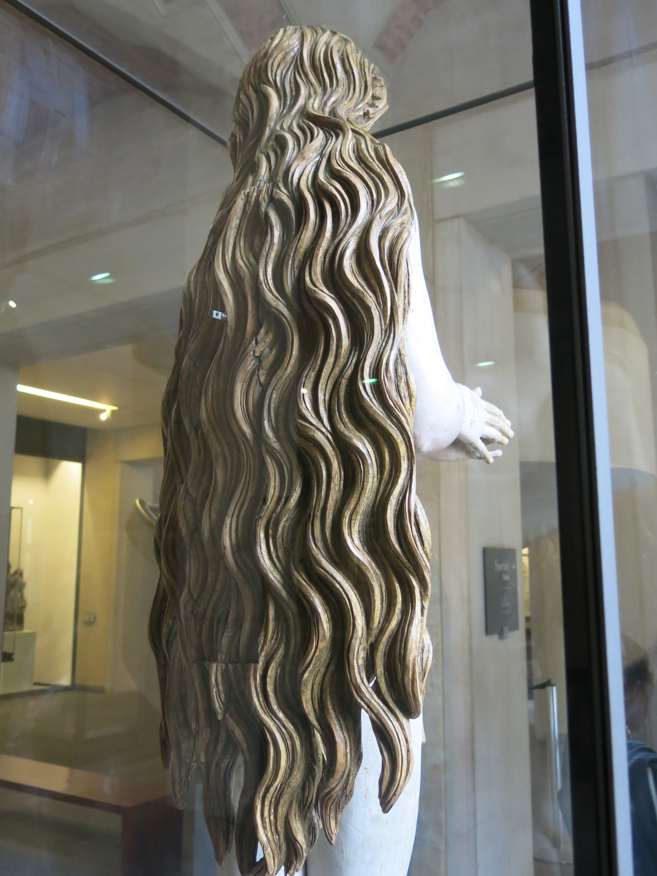 Back of the satue of Mary Magdelene penitente. Augsburg. Tilia wood. 1515-1520. Louvre museum (Paris, France). We see in the back of the statue a hook which allowed to hang the statue in the church.